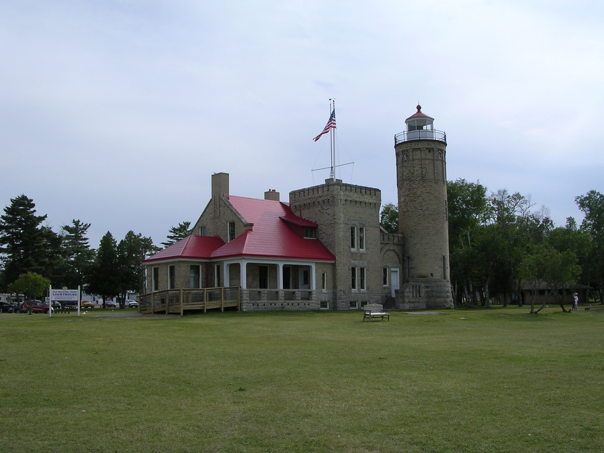 The Old Mackinac Point Light in Mackinaw City, Michigan, United States.